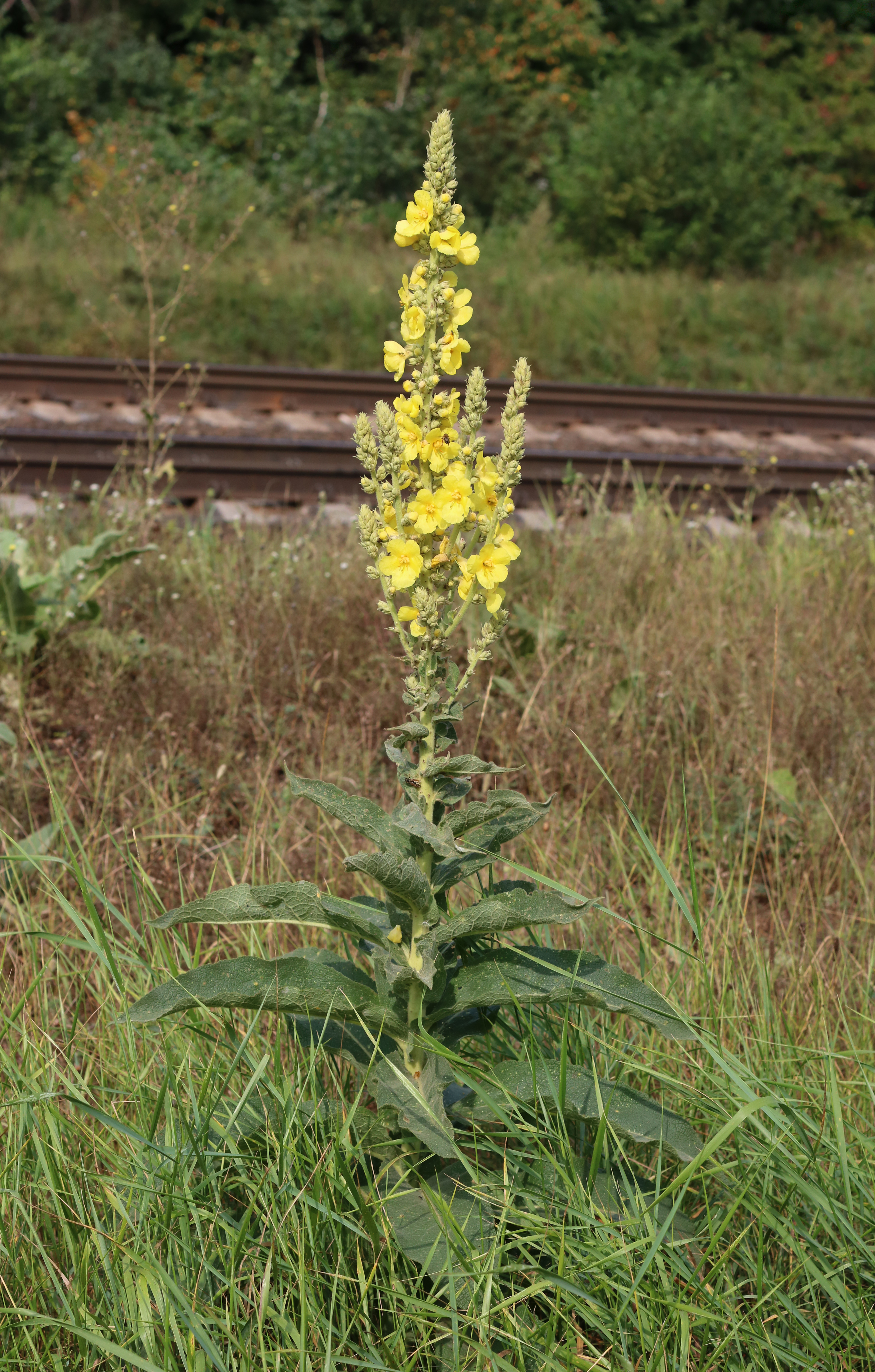 Mullein (Verbascum phlomoides). Ukraine, Vinnytsia rajon